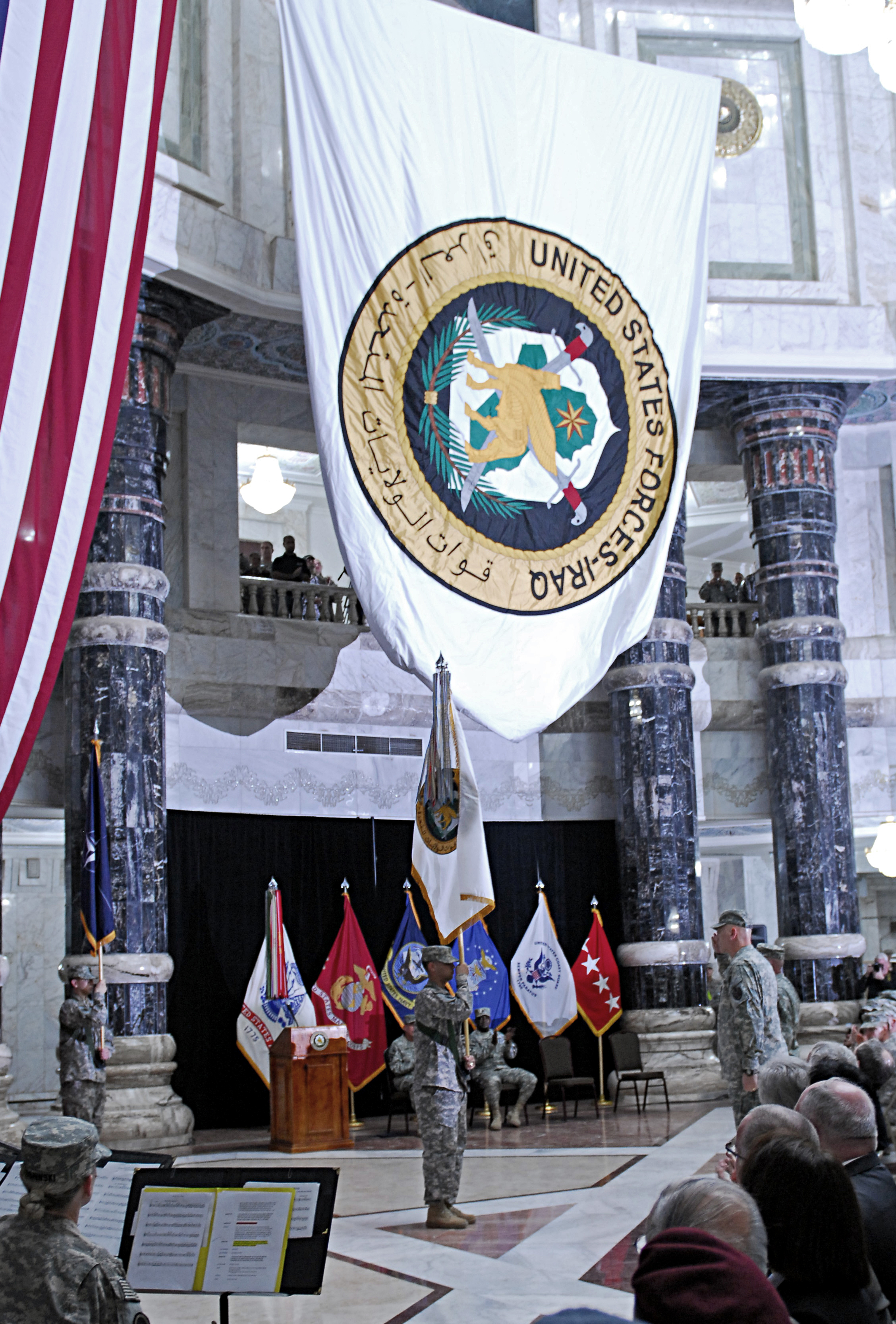 General Ray Odierno, U.S. Forces-Iraq commander, salutes the newly unfurled USF-I colors during the activation ceremony held Jan. 1, at Al Faw Palace on Camp Victory in Baghdad, Iraq.